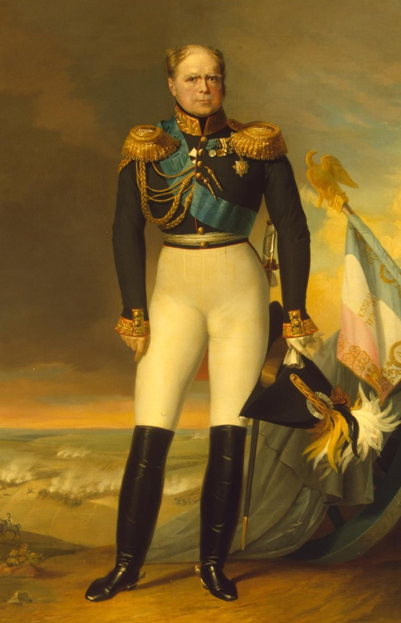 Bildbeschreibung: Großfürst Konstantin Pawlowitsch Quelle: Fotograf/Zeichner: George Dawe/Thomas Wright Datum: 1834 Sonstiges: Ermitage, St. Petersburg